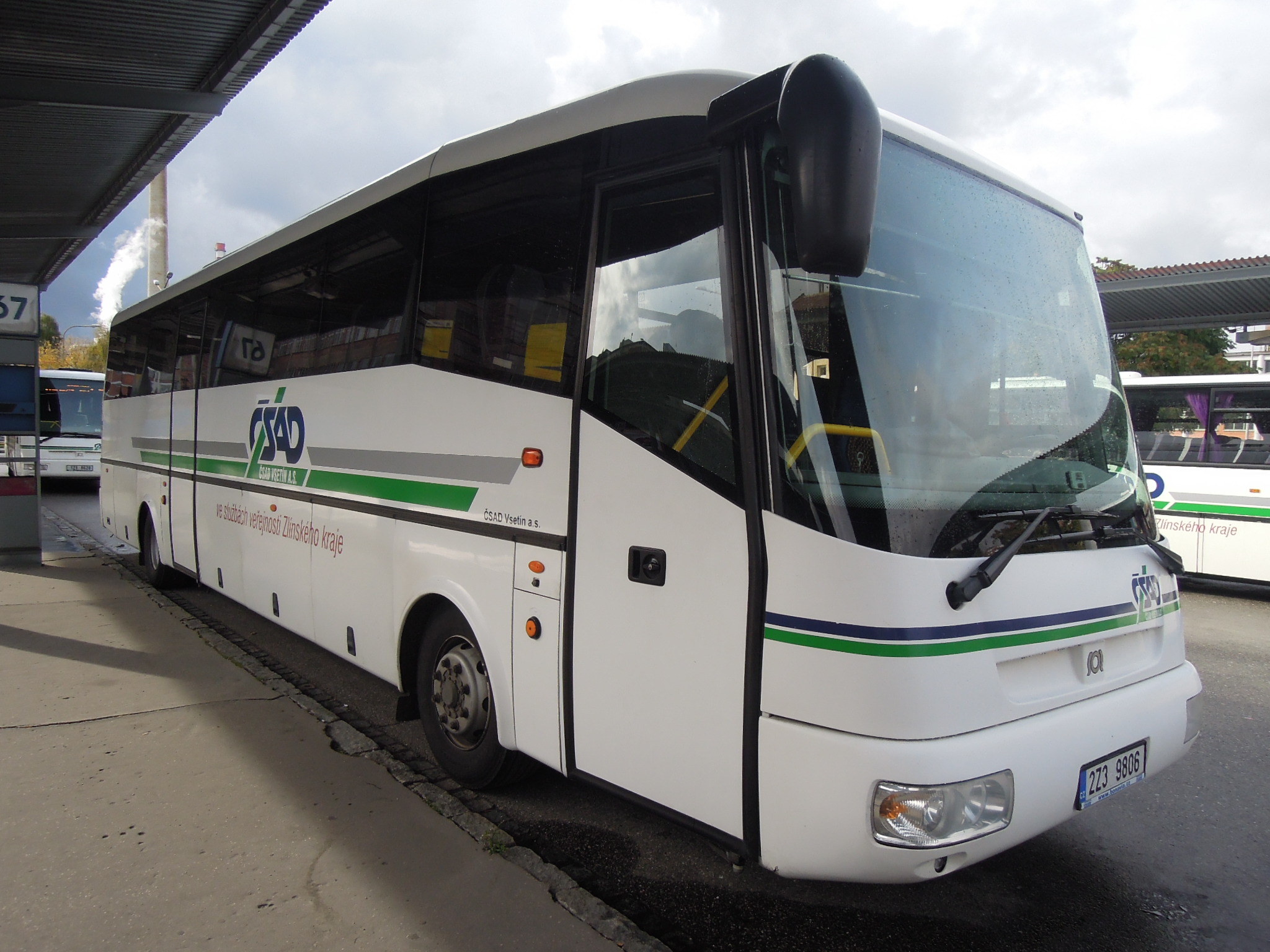 SOR LH 12 bus of ČSAD Vsetín in Zlín, Zlín Region, Czech Republic